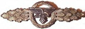 Glider badge of the Luftwaffe (Wehrmacht)